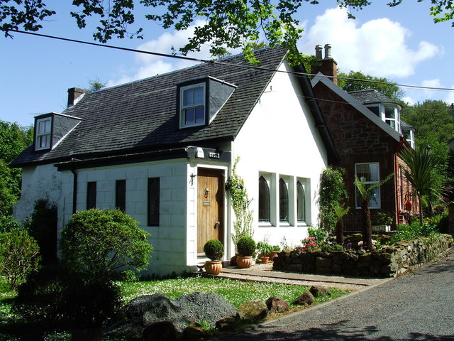 Former church at Meigle Built in 1876, now a house.